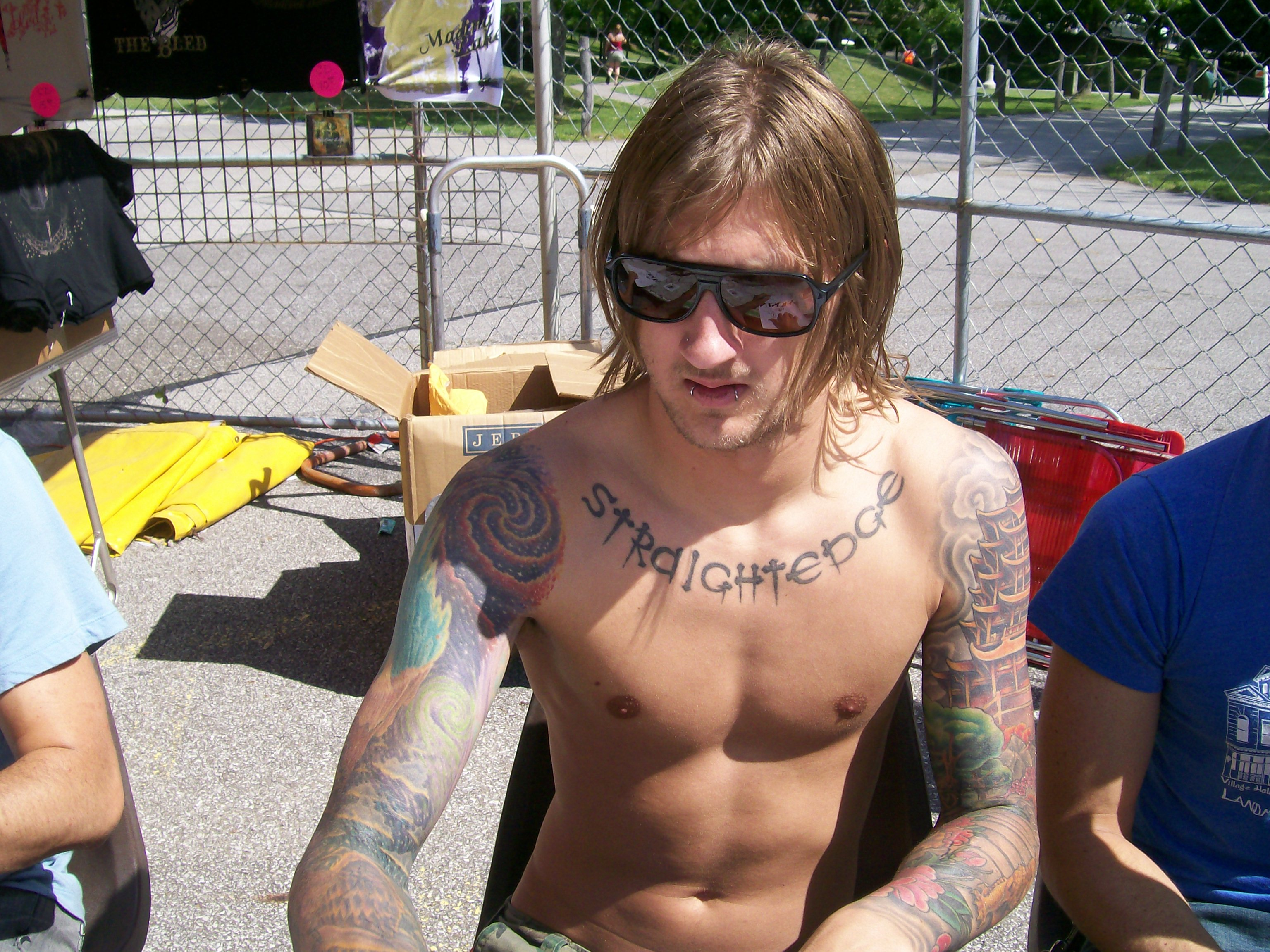 Justin Shekoski, is the guitarist for post-hardcore band Saosin